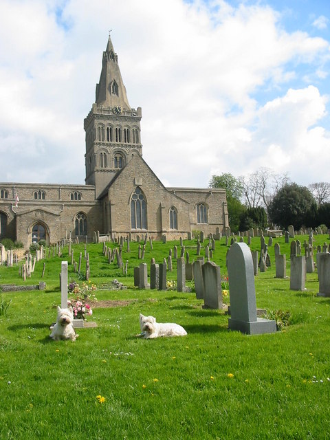 Castor Church. The church of St Kyneburgha at Castor to the west of Peterborough. Castor is the location of an important Roman settlement and the Roman palace was the second largest Roman building in Britain. The church is built on the site of the Roman courtyard. The area was an important Roman industrial site where pottery known as 'Castor Ware' was produced.